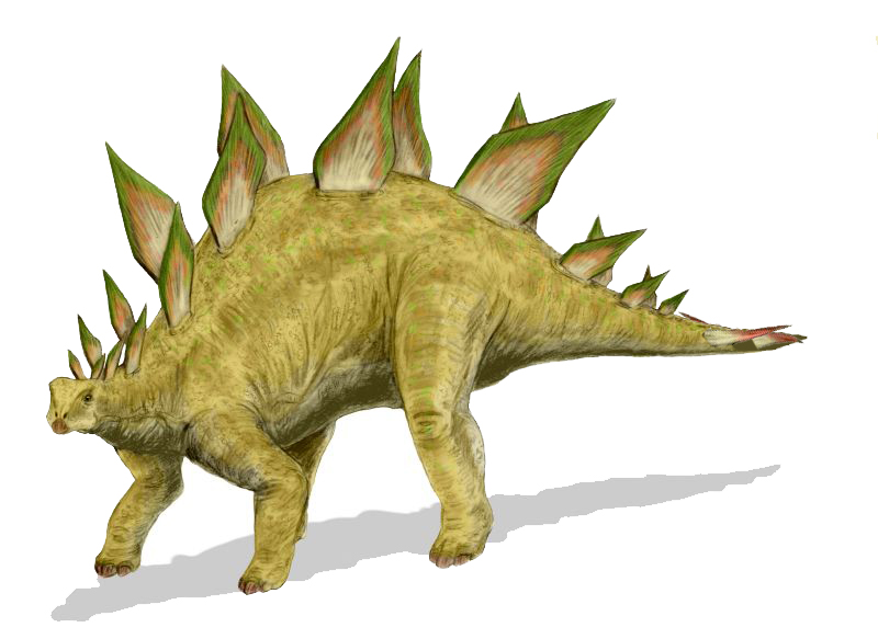 Stegosaurus stenops, a stegosaur from the Late Jurassic of North America, pencil drawing